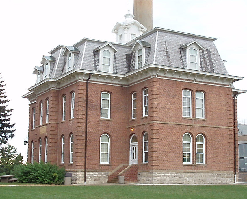 The Rolla Building from a southeast perspective, on the Missouri S&T campus in Rolla, Missouri, Homecoming weekend 2008